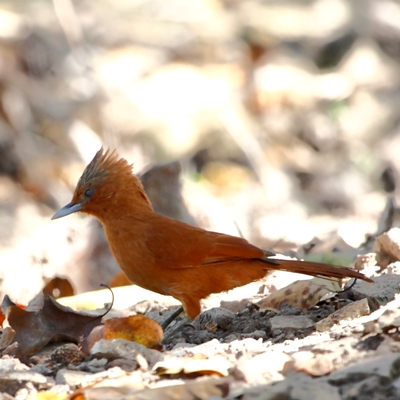 Rufous Cacholote at North Pantanal - Poconé - MT - Brazil